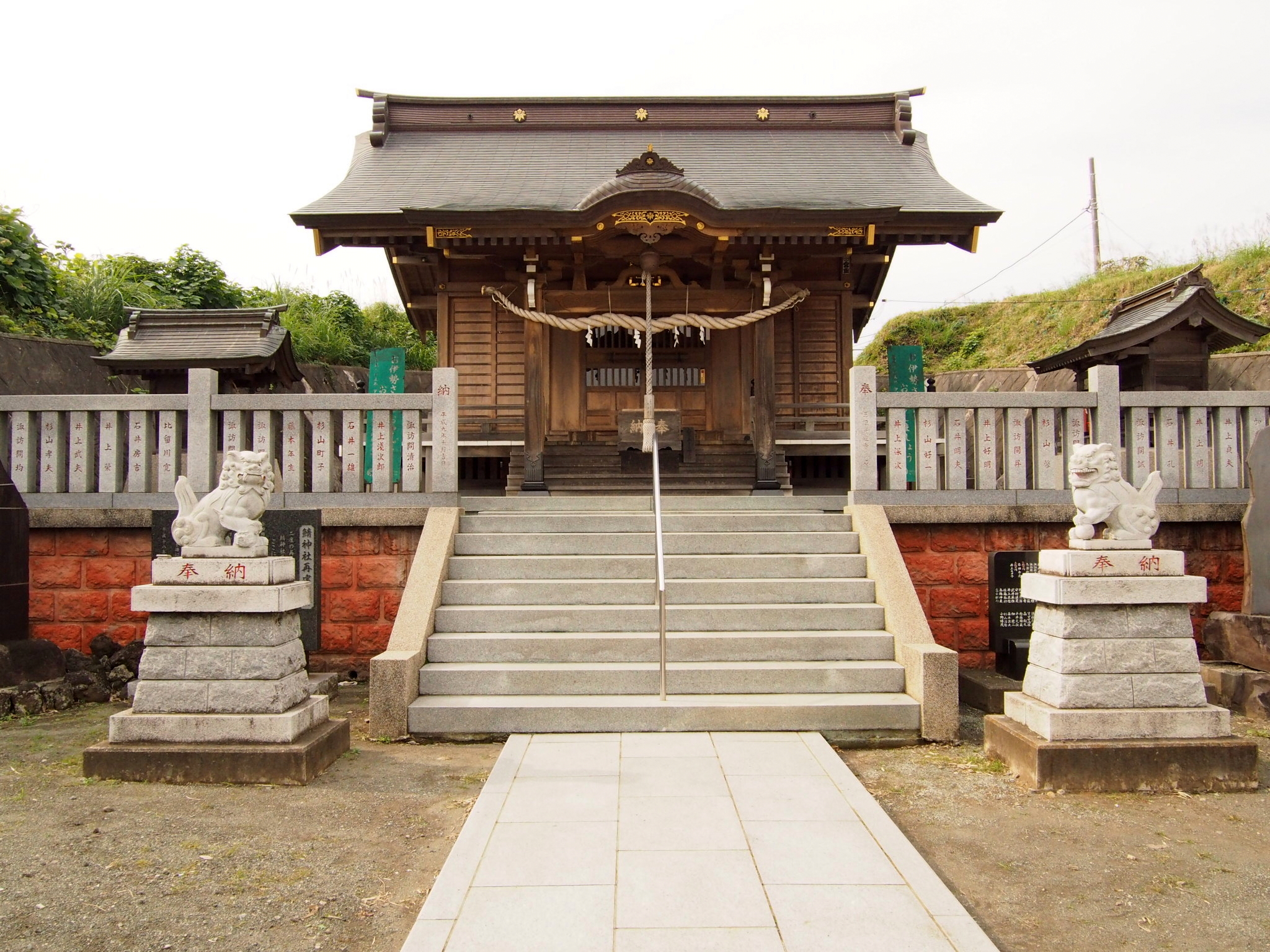 Imada Saba Jinja (Syonandai, Fujisawashi, Kanagawa)